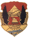 Coat of arms of the former Negotino Pološko Municipality, Macedonia.